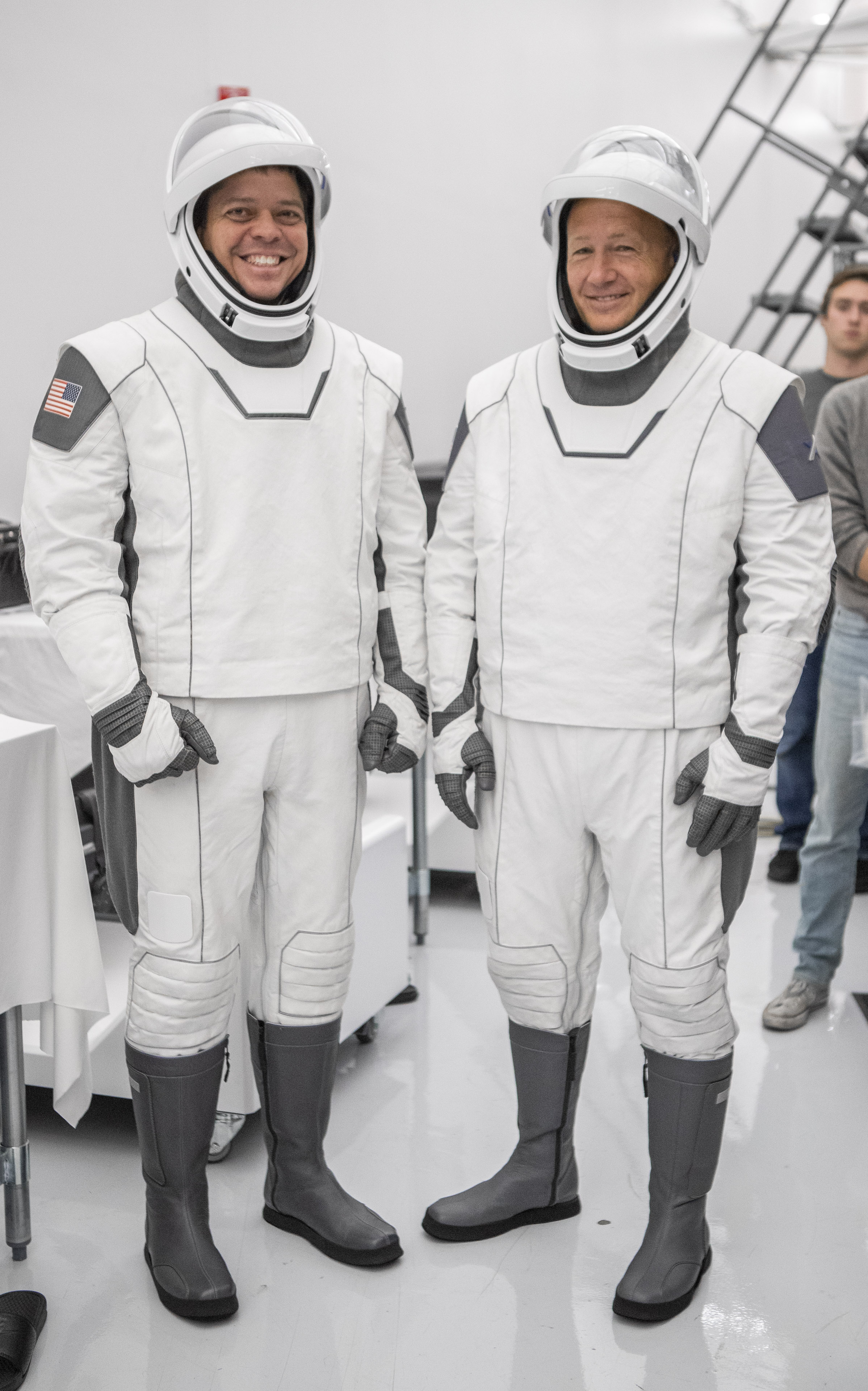 NASA astronauts Bob Behnken, left, and Doug Hurley participate in a suit-up in preparation for the launch of SpaceX's DM-2 mission to the International Space Station.